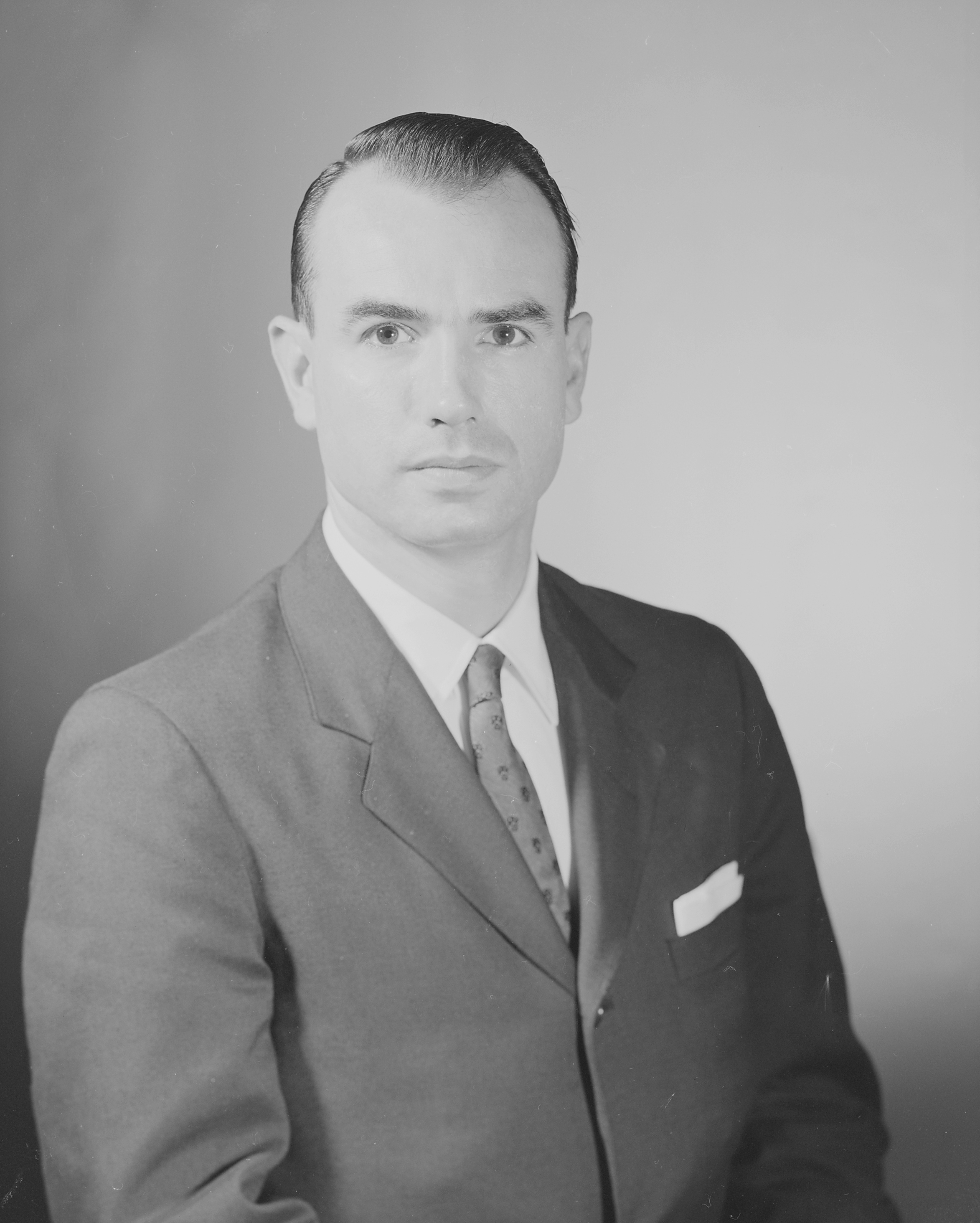 Portrait of Special Agent George G. Liddy (now known as G. Gordon Liddy). Item from Record Group 65: Records of the Federal Bureau of Investigation, 1896 - 1994 ARC Identifier: 518189 Local Identifier: 65-HN-5885 NAIL Control Number: NWDNS-65-HN-5885